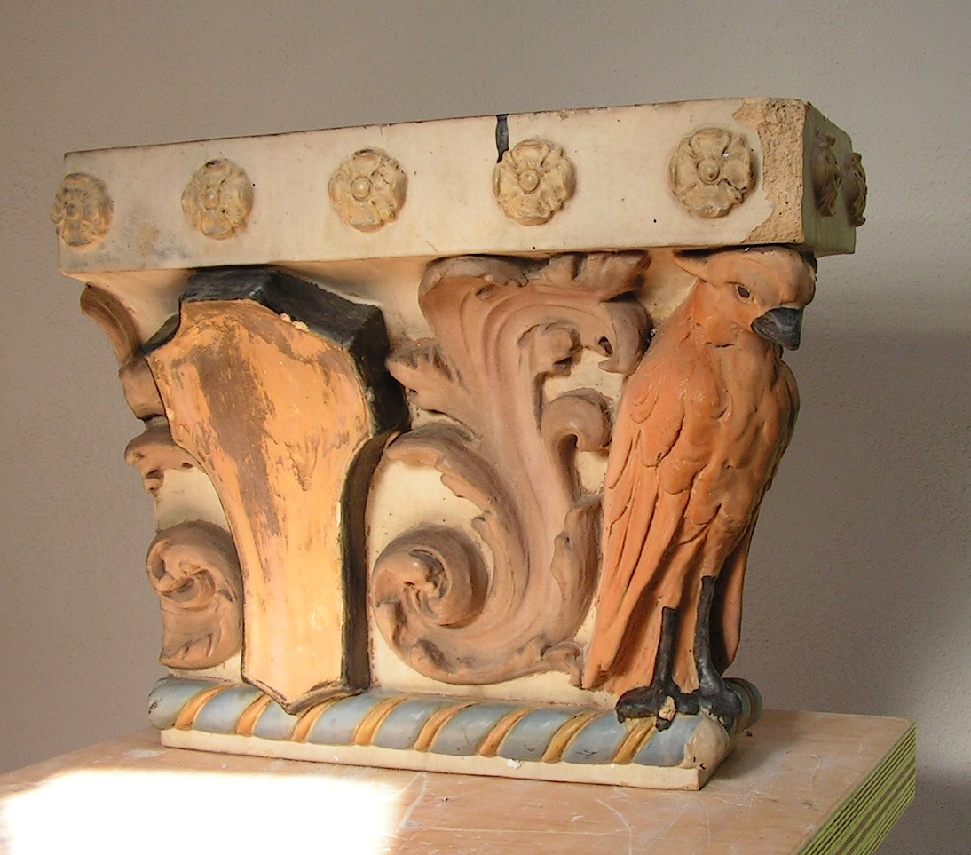 Polychrome glazed terra cotta architectural capital, circa 1915. Owner: Randalls Urban Sculptures Collection